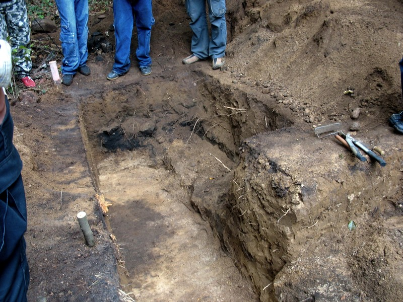 Lubieszewo, position 3, (Tunnehult) - Ducal tumulus. Archaeological investigations - 2006. Lubieszewo, administrative district Gryfice, Poland.